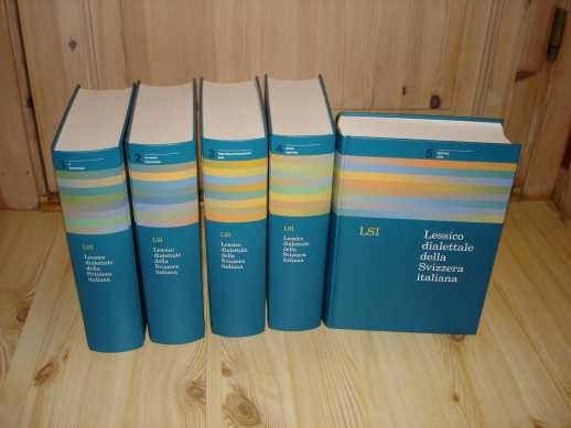 LSI Dictionnary in 5 volumes